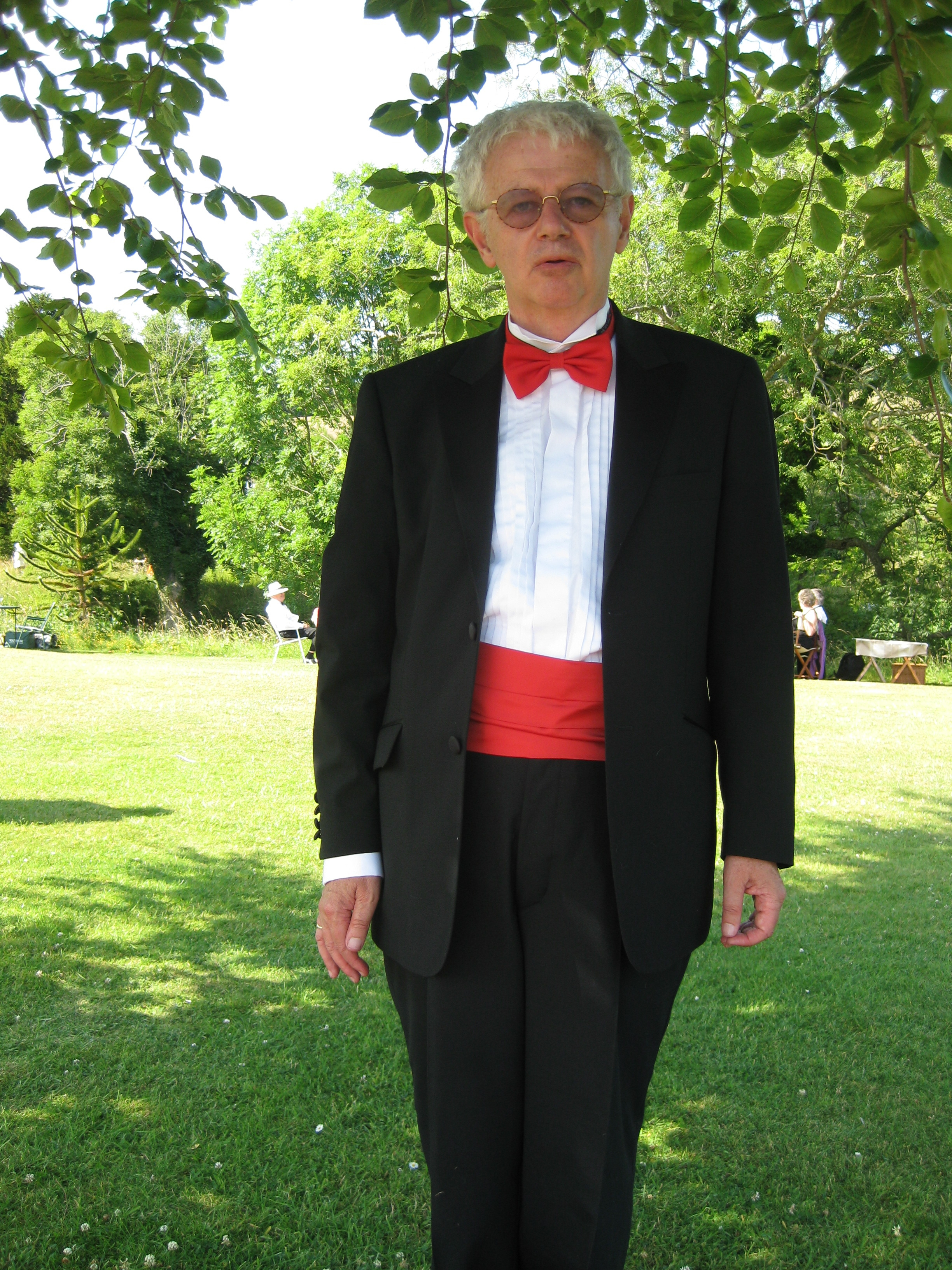 Taken by Stephanie Newell at Glyndebourne, Sussex, England on Robert Fraser's camera